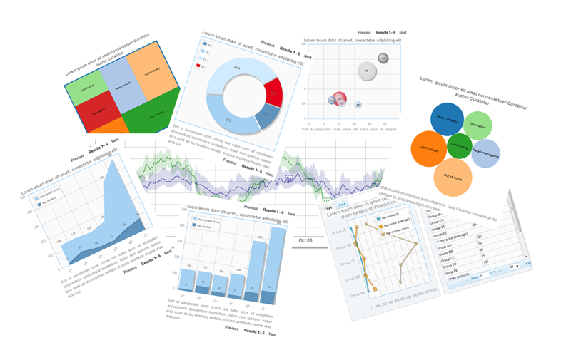 Shows result formats of Semantic MediaWiki in a nice layout. The picture is taken from where it's published under CC-BY 3.0 licence